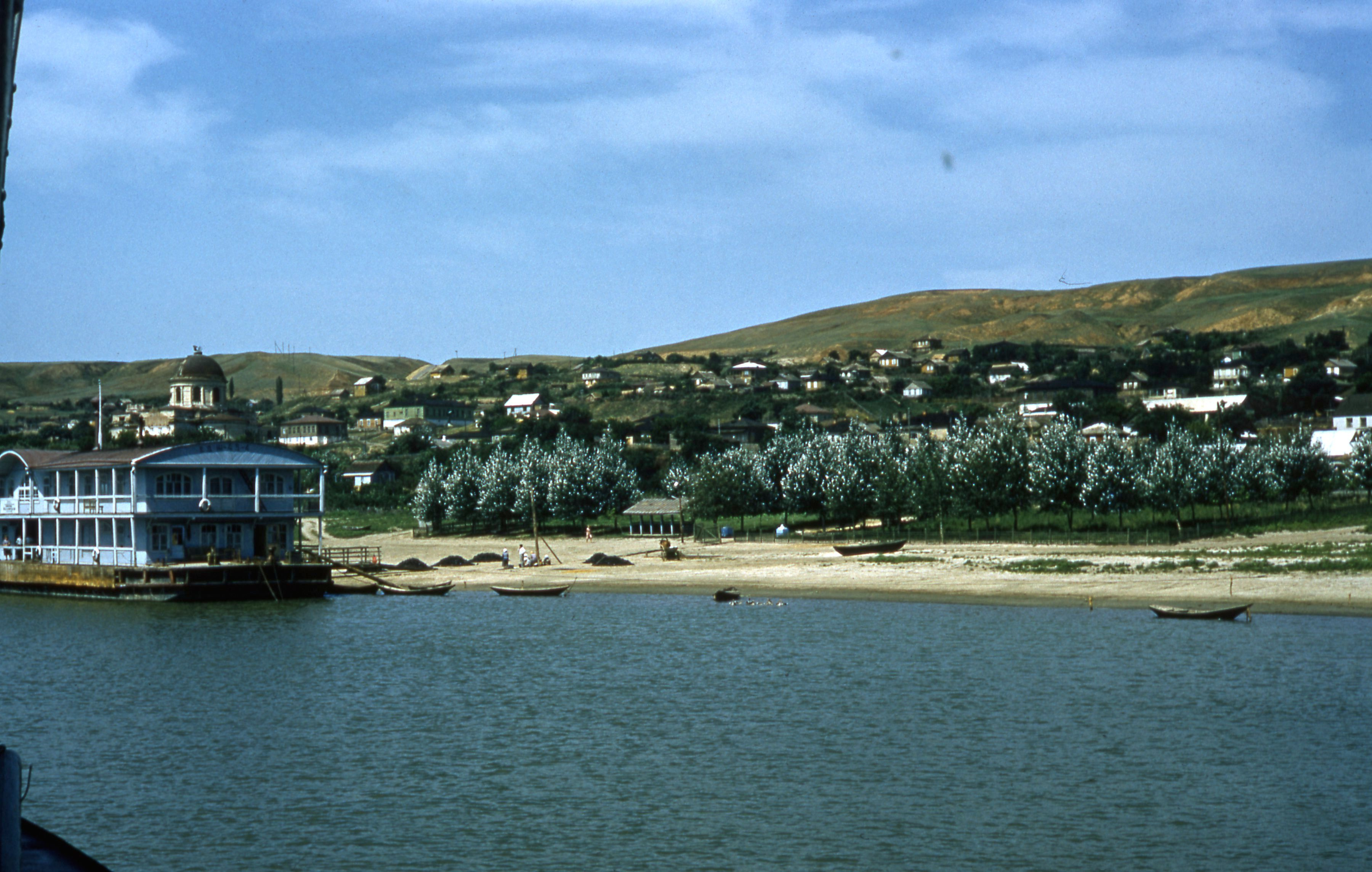 These images were taken by Thomas T. Hammond during his travels to the Soviet Union. This particular box was unlabeled, so the exact locations and people are unknown, though probably these images were taken in 1958. // This is Razdorskaya on the River Don. The church would be demolished in 1962.